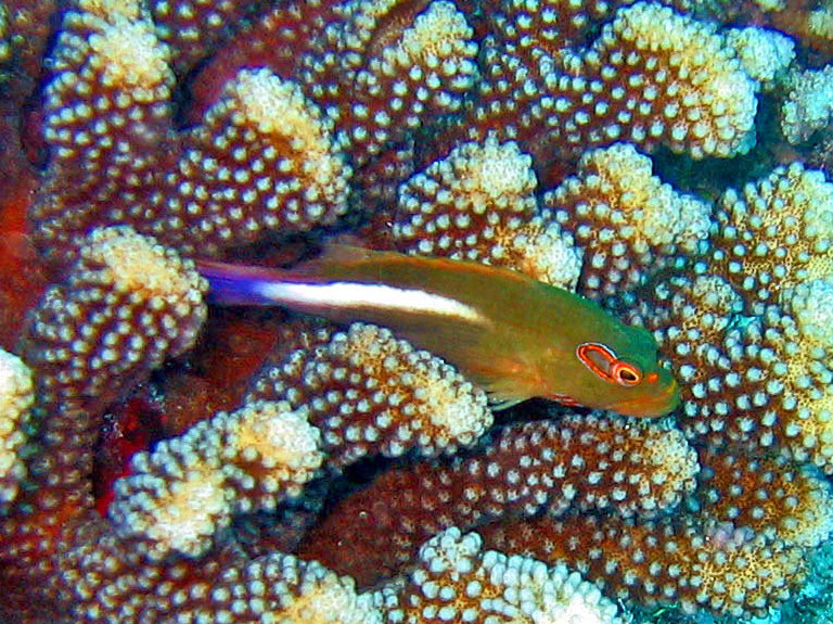 Paracirrhites arcatus in Polynesia